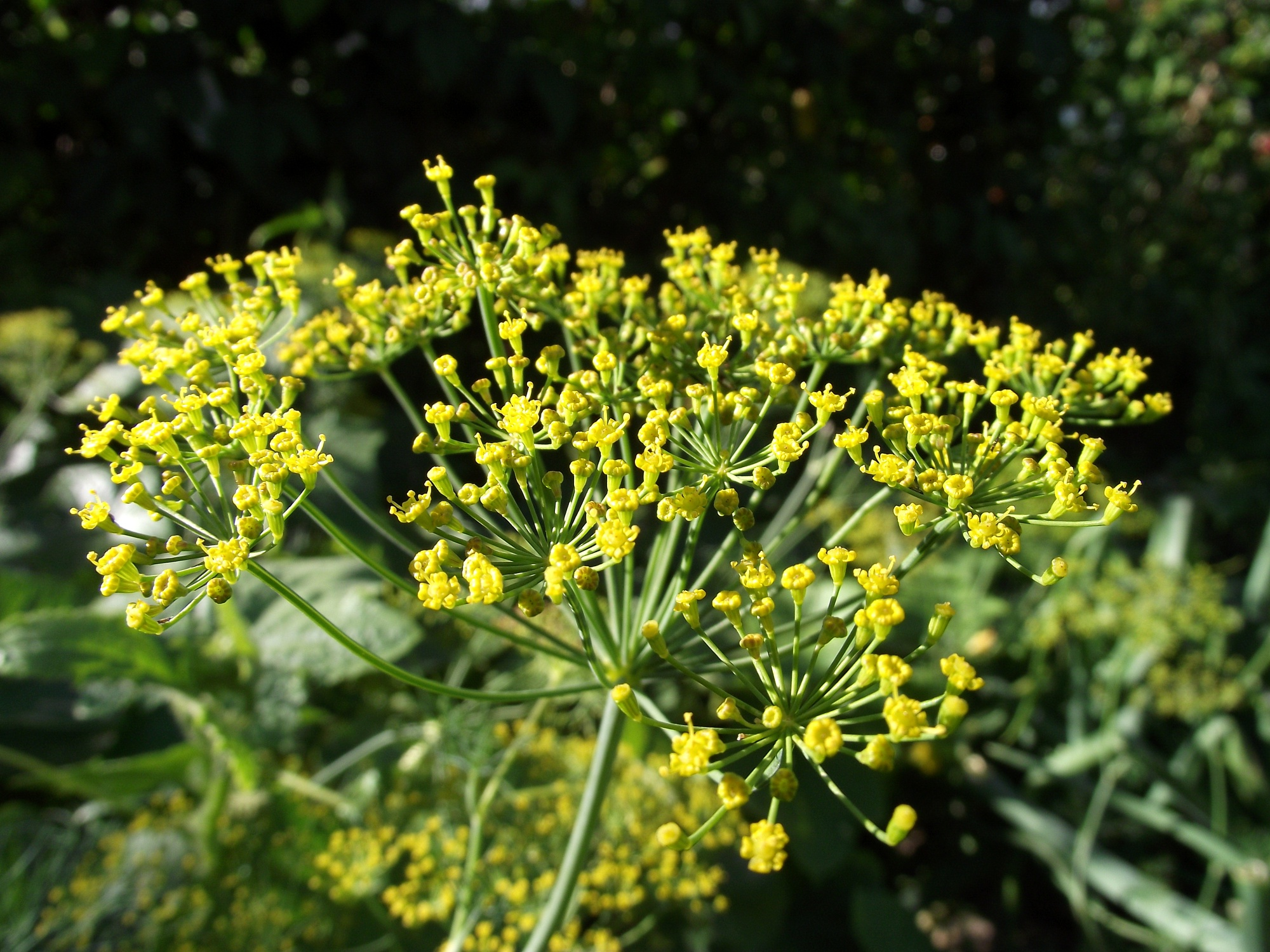 Inflorescence of Dill (Anethum graveolens)